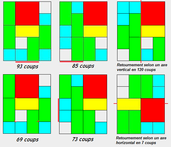 Positions of Dunkey structure puzzle which are maximum length